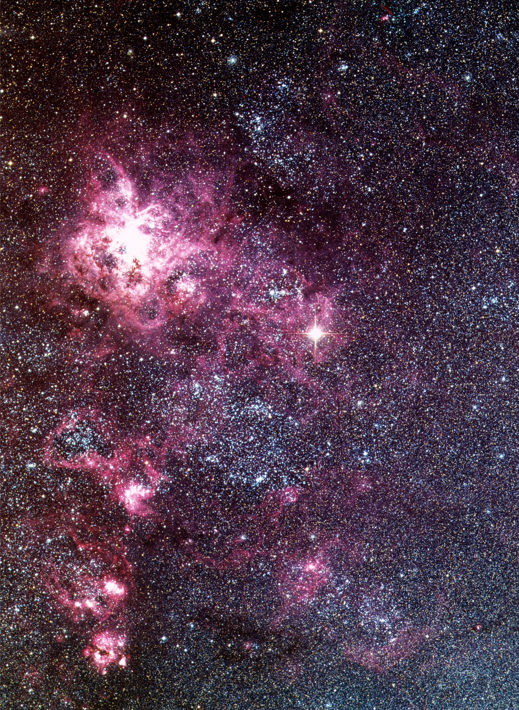 Image obtained with the ESO Schmidt Telescope of the Tarantula Nebula in the Large Magellanic Cloud. Supernova 1987A is clearly visible as the very bright star in the middle right. At the time of this image, the supernova was visible with the unaided eye.